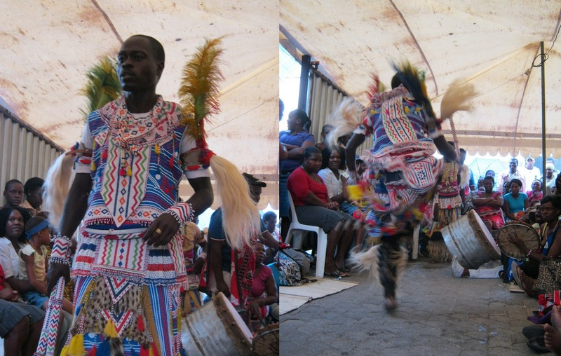 Sangoma, Baba Liefa from Shoshanguve, is dancing in celebration of his ancestors, wearing homemade traditional ancestral attire.